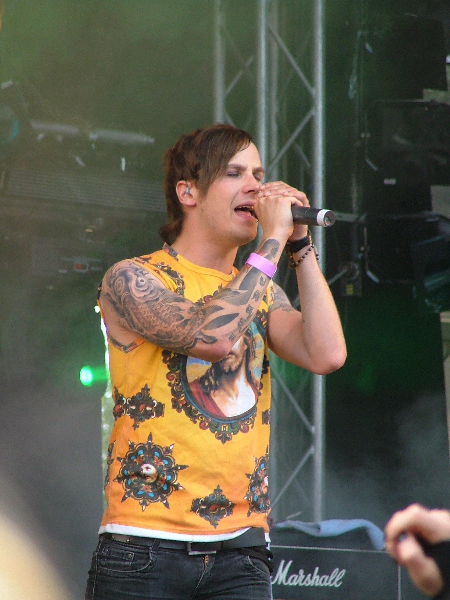 Finnish rock band Uniklubi in Kuopio at Rockcock-musicfestival